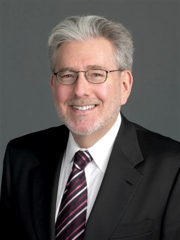 photo of Alan M. Krensky, MD